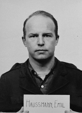 Emil Haussmann (1910 –1947), German SS-Officer of the Einsatzgruppen killing squads. This photograph of Haussmann was taken by US Army photographers on behalf of the Office of Chief of Counsel for War Crimes (OCCWC) during Nuremberg Trial IX (Einsatzgruppen Trial / Einsatzgruppen-Prozess).